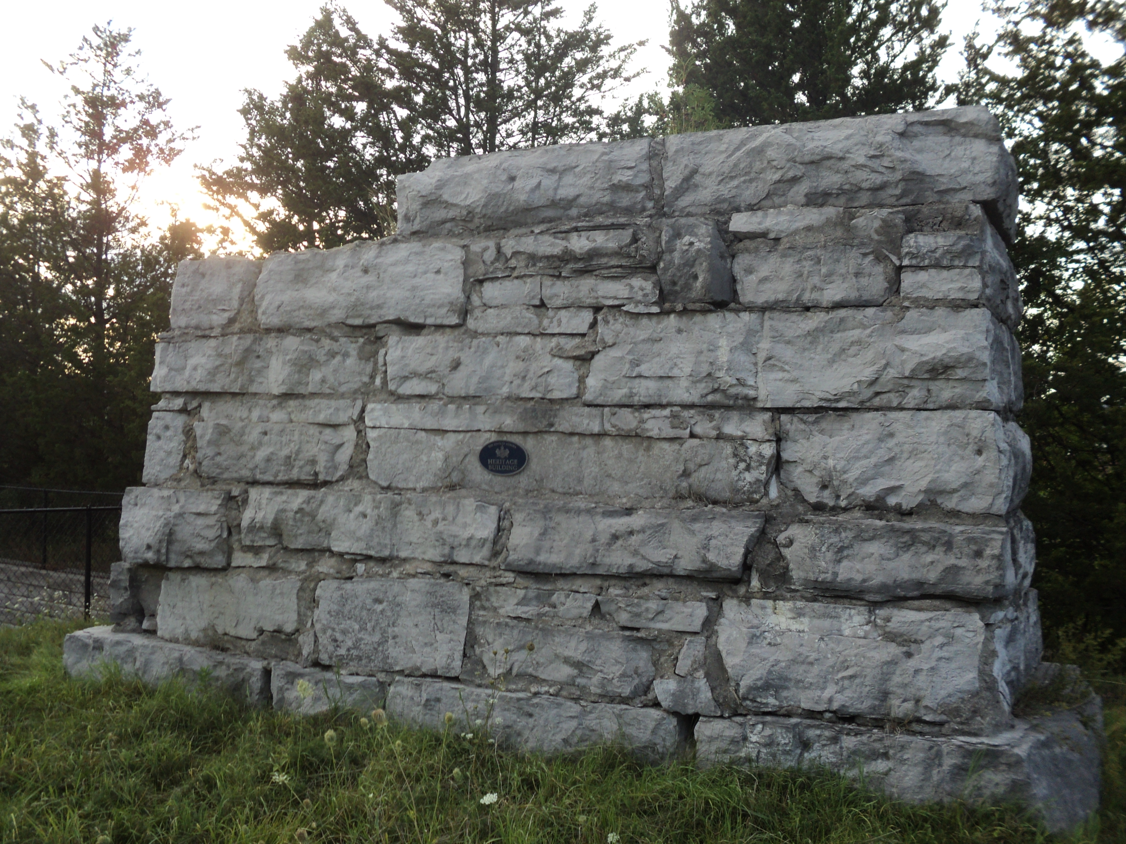 View of the front of the Radial Railway Bridge Abutment. The back is unable to be seen, unless one jumps the fence around the monument.